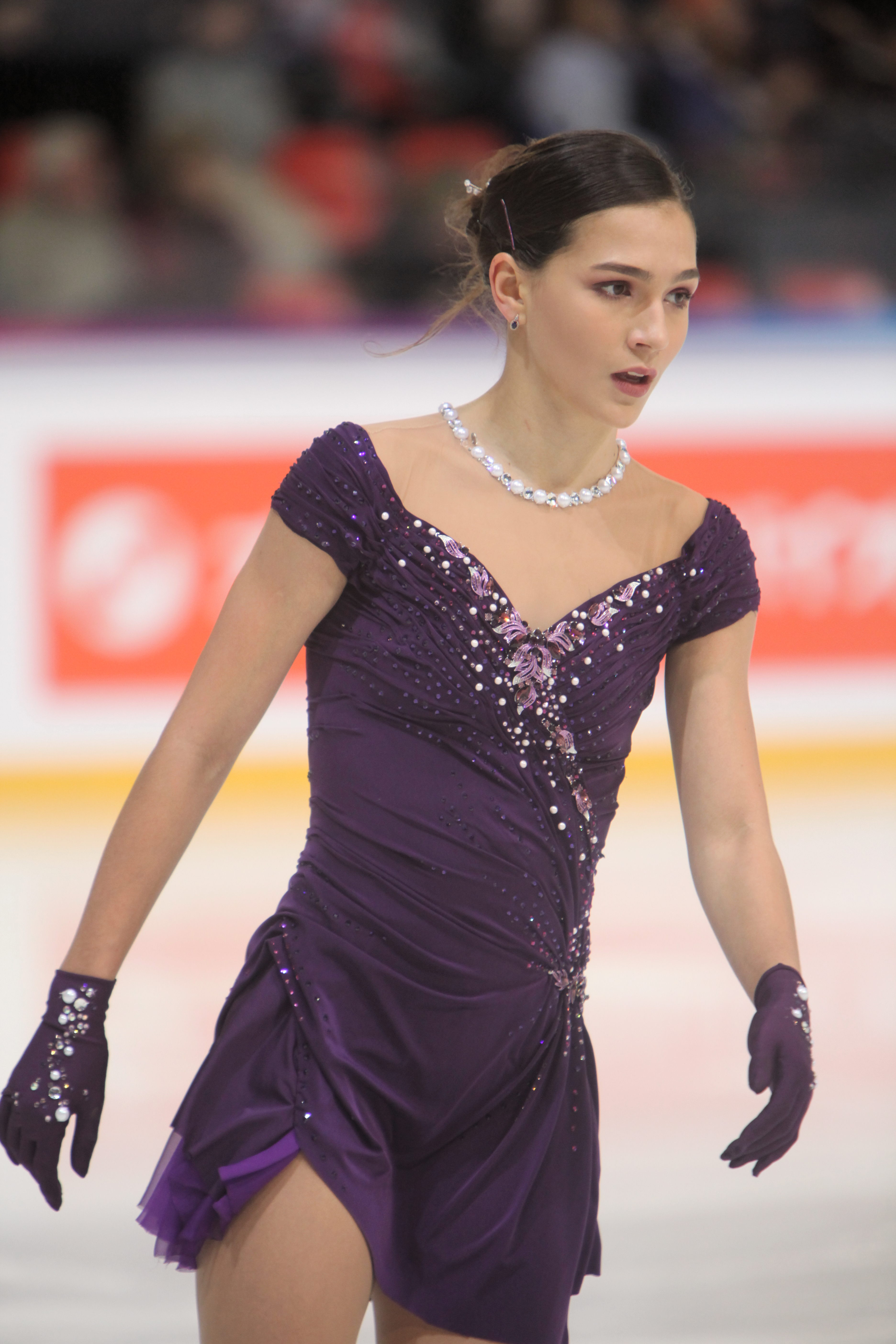 Stanislava Konstantinova during the Ladies Free Skating at the Internationaux de France de Patinage 2018.